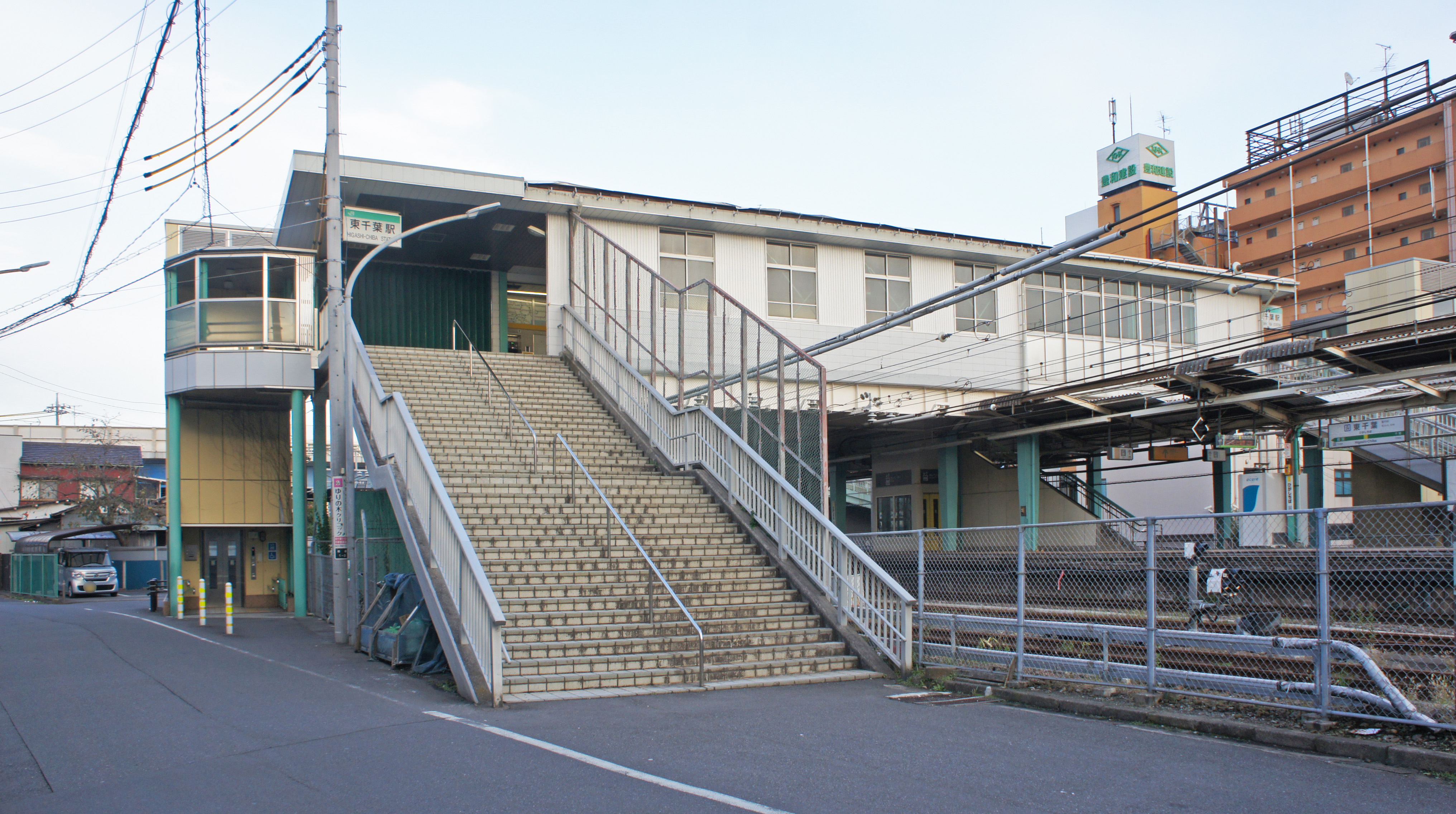 North Exit of JR Sobu-Main-Line Higashi-Chiba Station